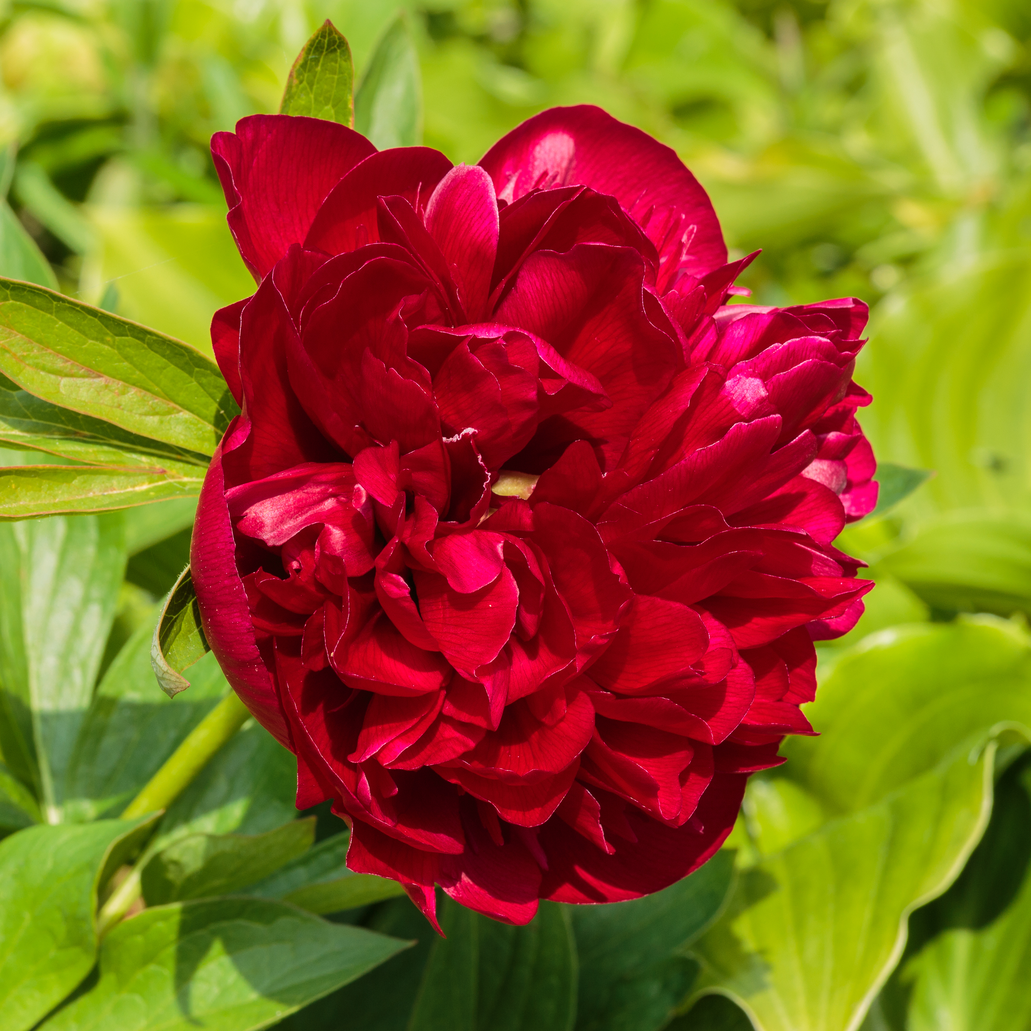 Hortus Haren. Flower of a Peony, paeony (Paeonia).